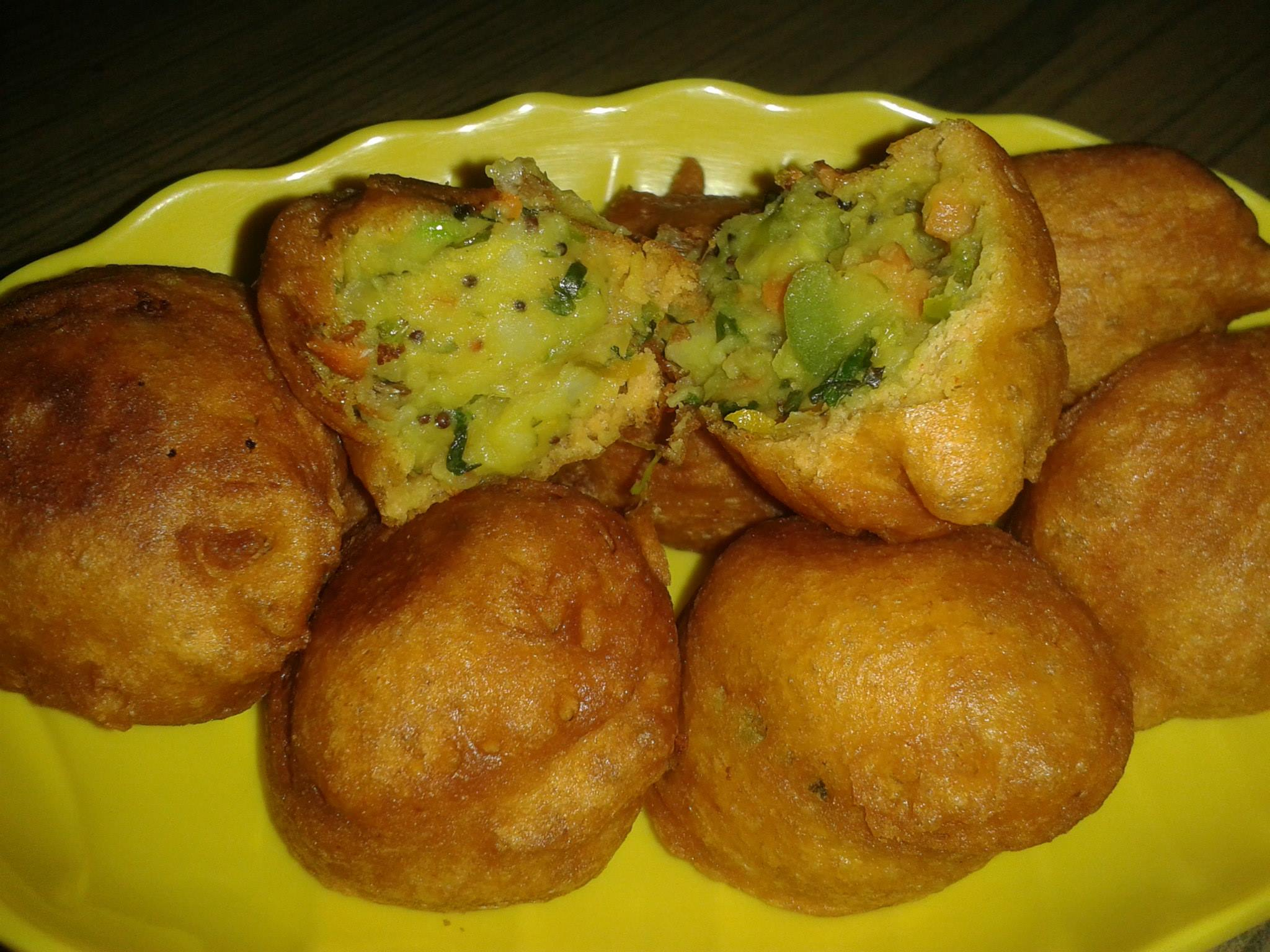 This is a famous street food across India, is spicy potato mash covered in crispy lentil flour batter